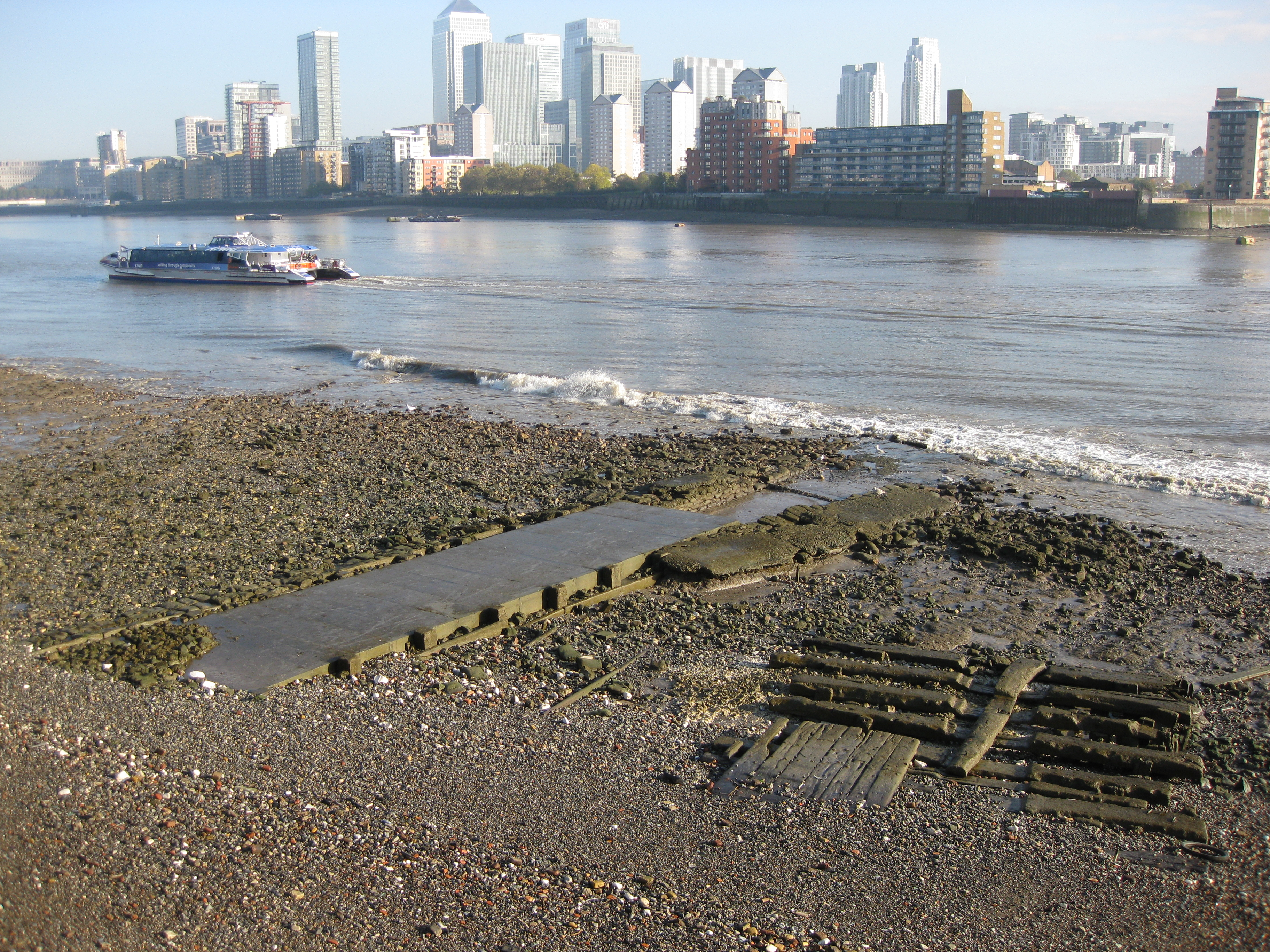 The culverted mouth of the Earl's Sluice at Deptford Wharf, the remains of a slipway, a Thames Clipper slowing to stop at Greenland Dock, and Canary Wharf in the background.